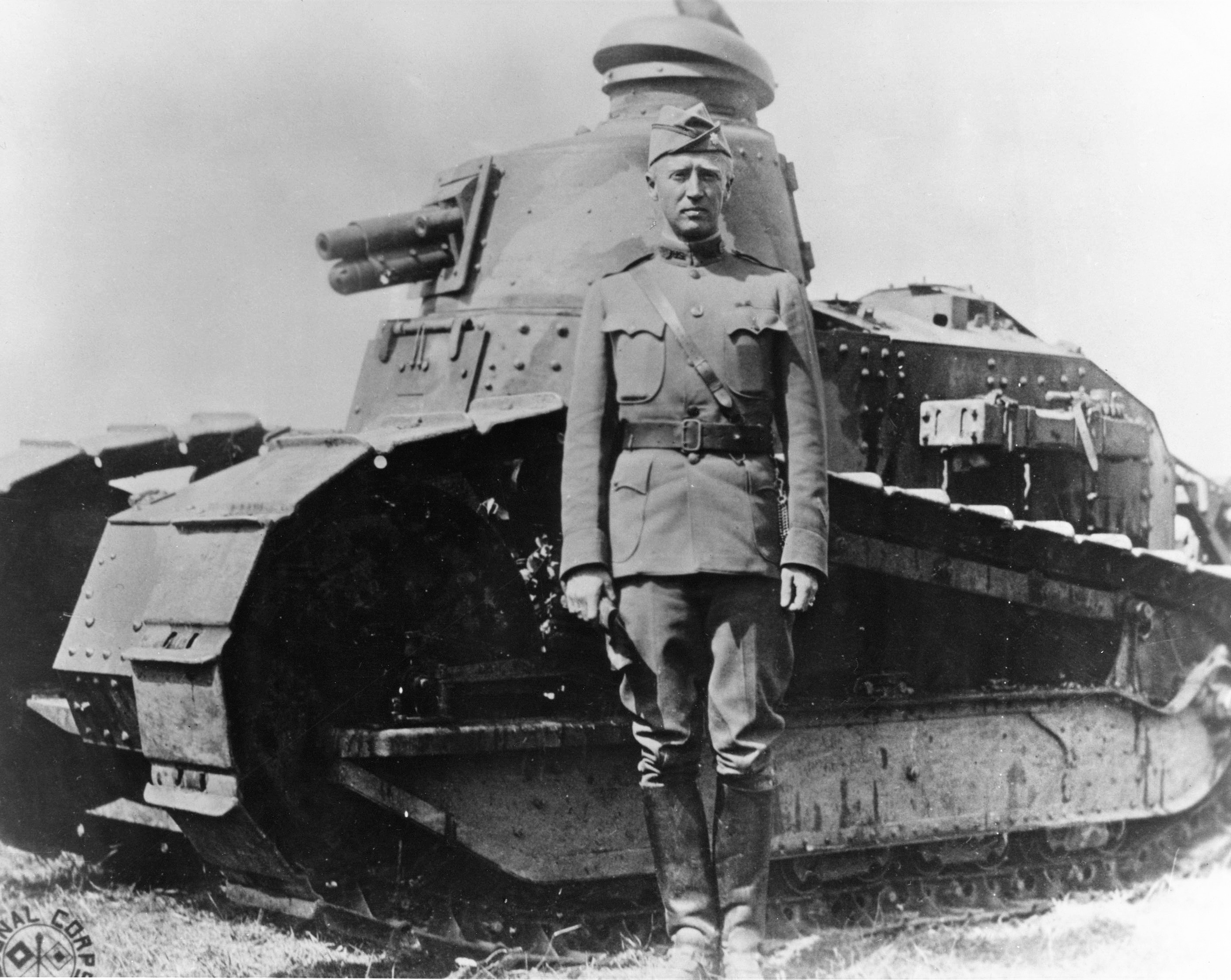 Lieut. Col. George S. Patton, Jr., 1st Tank Battalion, and a French Renault tank, summer 1918.